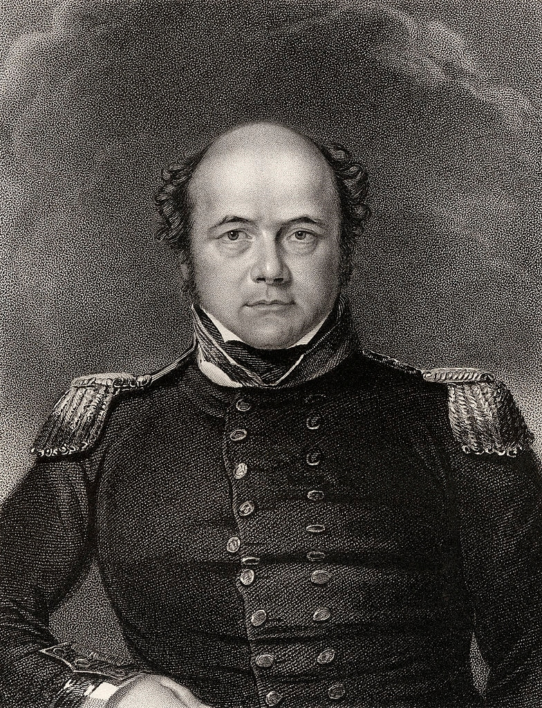 Sir John Franklin 1786 to 1847 Celebrated English navigator and arctic explorer Engraved by Thomson after Derby From the book National Portrait Gallery volume II published c 1835